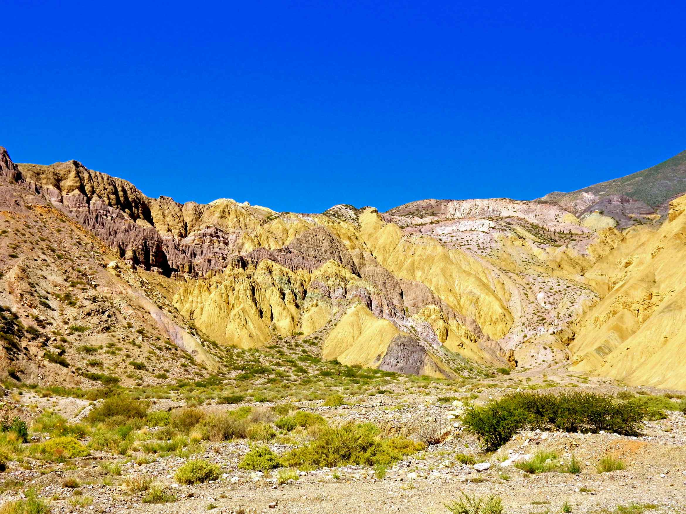 On the road from Purmamarca to Tilcara are yellow coloured mountains. Auf der Quebrada de Humahuaca zwischen Salta, Purmamarca und Tilcara sind gelbfarbige Felsformationen. You're welcome to use this picture free of charge, as long as you follow the license terms. As a matter of courtesy a link (dofollow links are welcome!) to is much appreciated. Thank you! ————————–—–—–—–—–—–—–—–—–—–—–—–—–—–—– Du kannst dieses Bild gemäß der Lizenzbestimmungen unentgeltlich nutzen. Über eine Verlinkung (dofollow am liebsten) auf freuen wir uns. Danke!